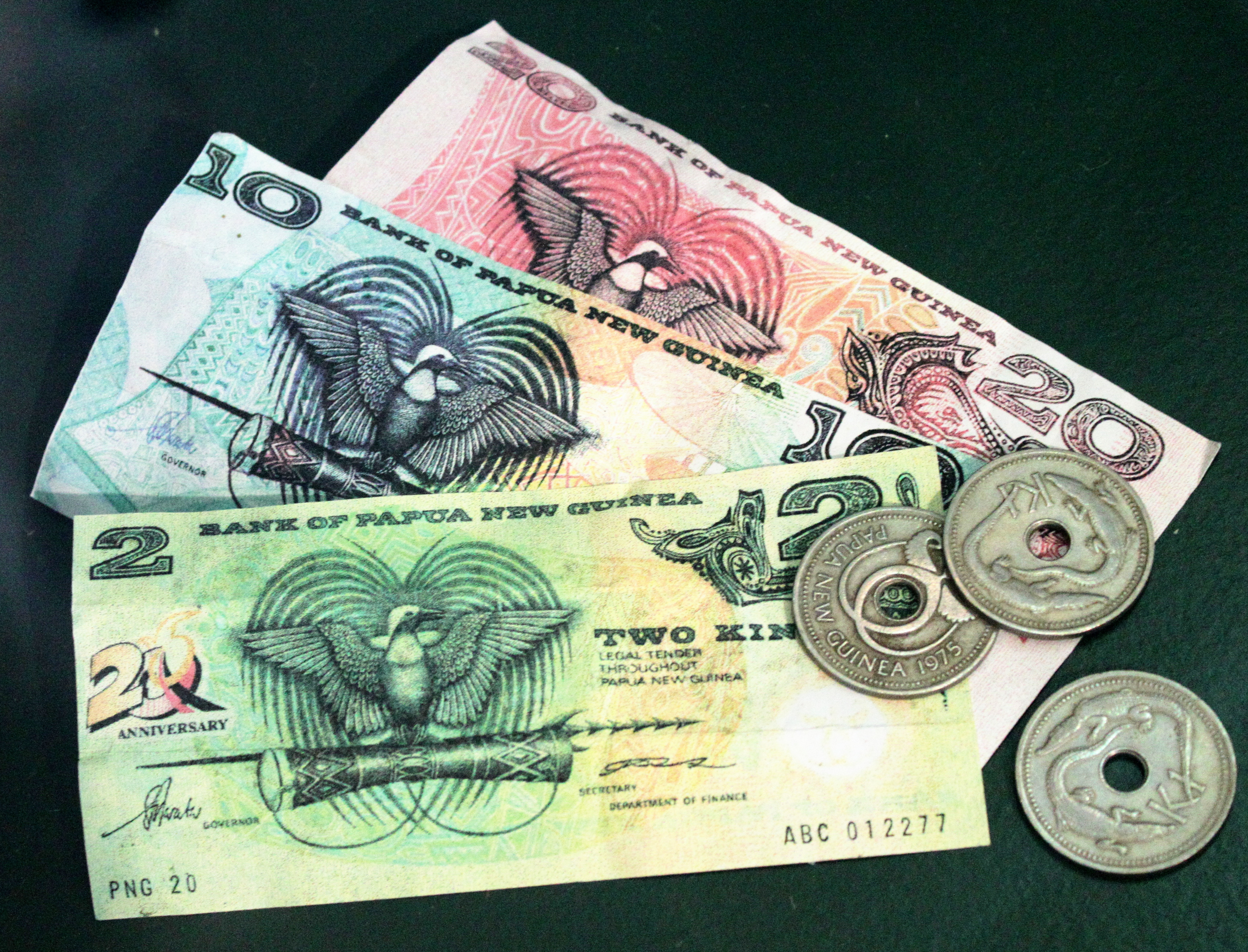 Übersee-Museum Bremen Native nameÜberseemuseumLocationBremenCoordinates53° 04′ 59.88″ N, 8° 48′ 38.02″ E Establishedcirca 1911 date QS:P,+1911-00-00T00:00:00Z/9,P1480,Q5727902Web page control : Q333527 VIAF: 130904288 ISNI: 0000 0001 2259 6632 LCCN: n80132944 GND: 37491-X SUDOC: 032711492 WorldCat institution QS:P195,Q333527